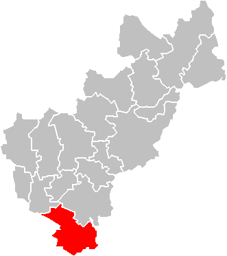 Map showing the municipality of Amealco, State of Queretaro, Mexico